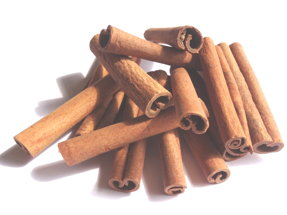 gyepi – cassia cinnamon (Cinnamomum cassia) barks